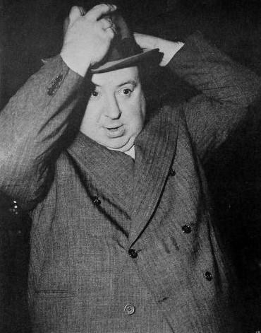 Alfred Hitchcock, Cine Mundial, 1943